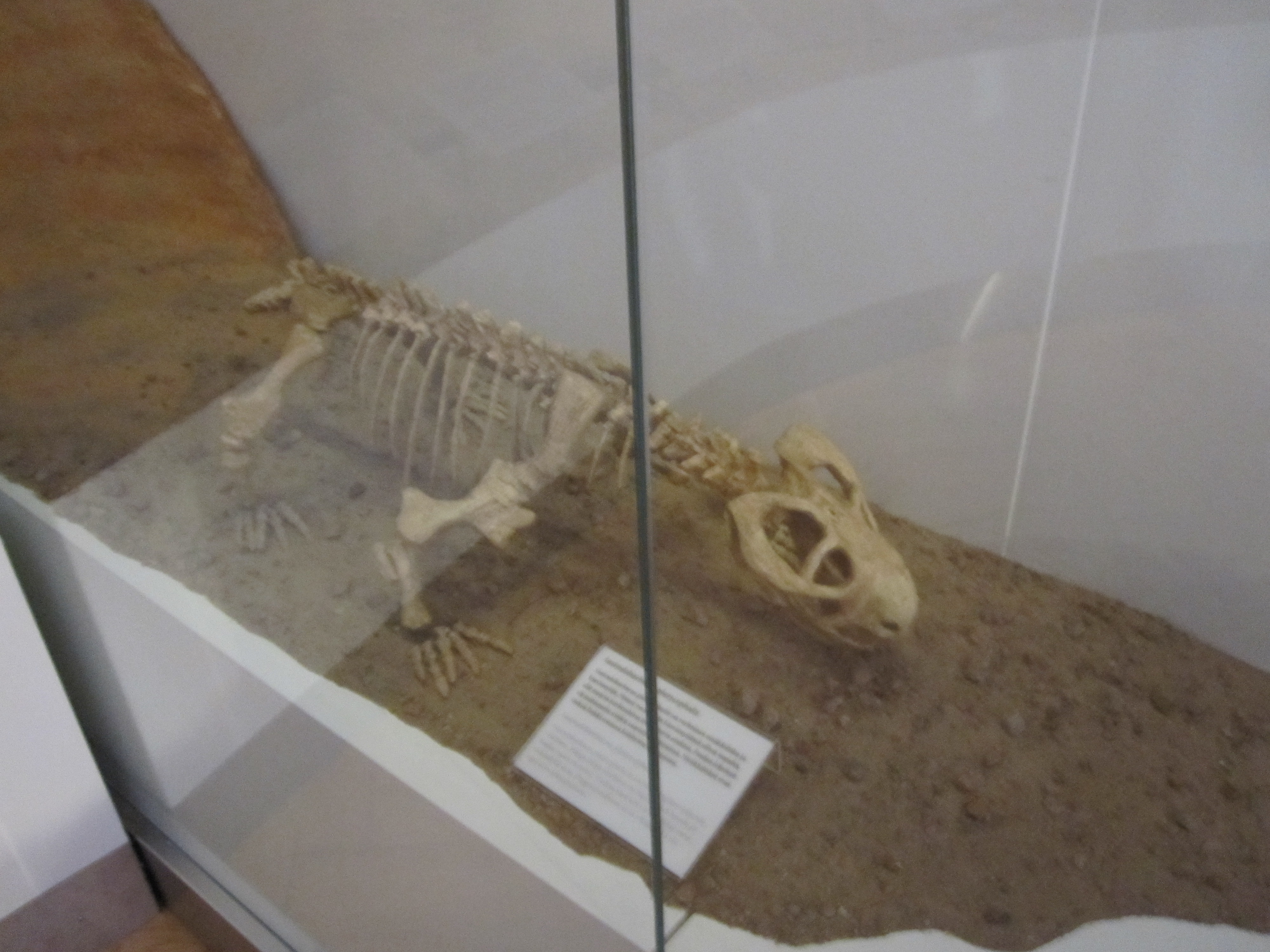 Fossil of an extinct therapsid Australobarbarus in Natural History Museum of Helsinki, Finland.